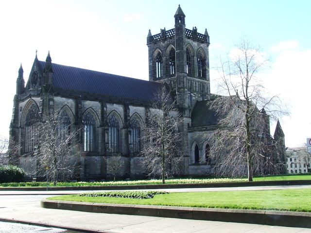 Paisley Abbey The north side of the abbey, viewed from Cotton Street.